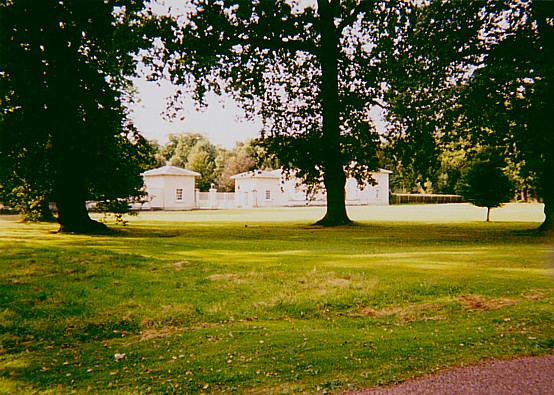 Windsor Great Park, entrance Gates to the Royal Lodge